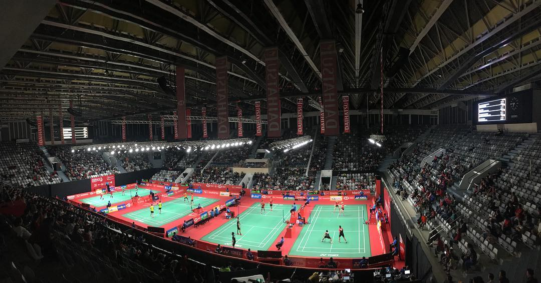 Interior of Istora Senayan